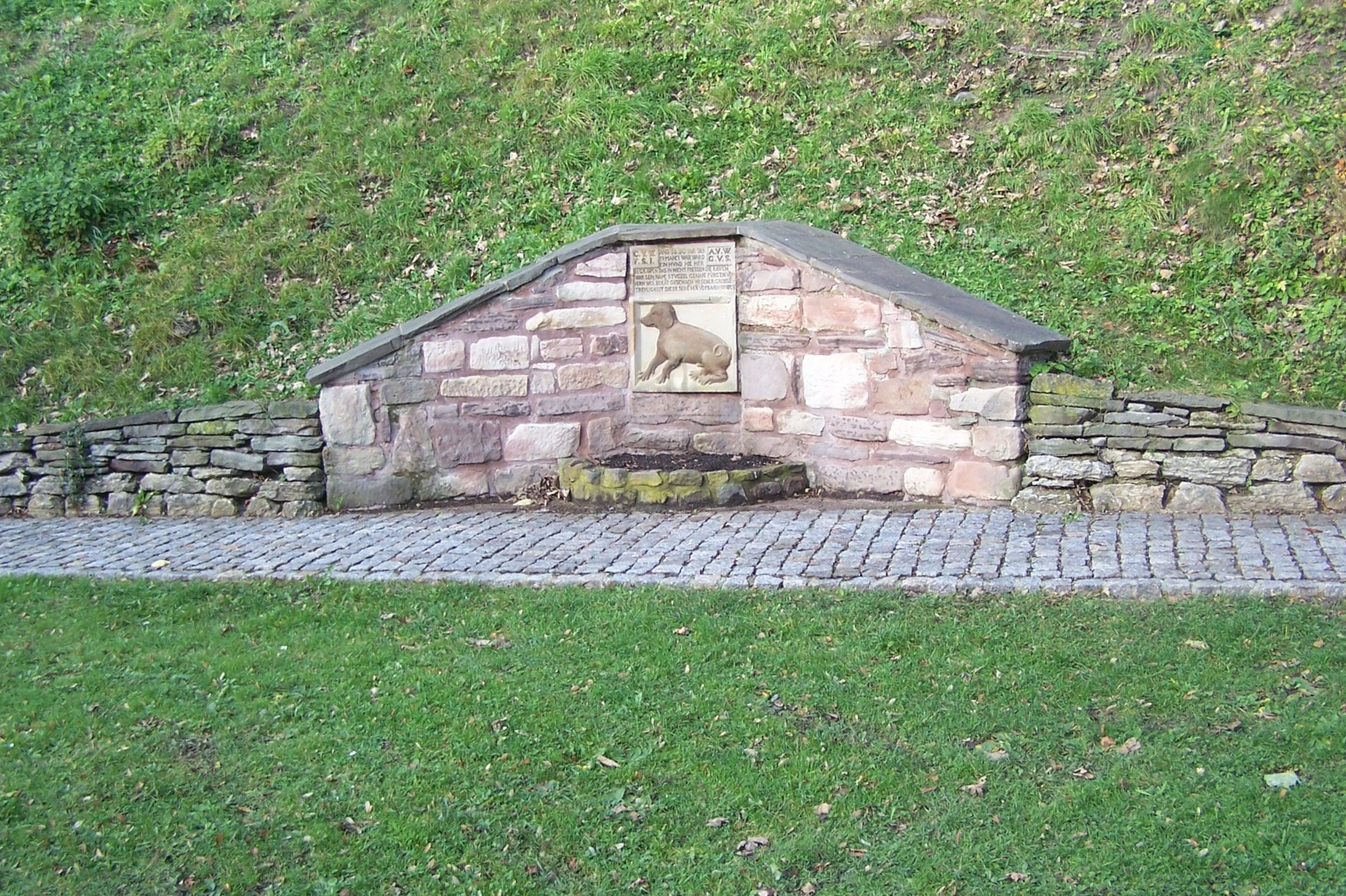 The Stutzel memorial at Winterstein castle.